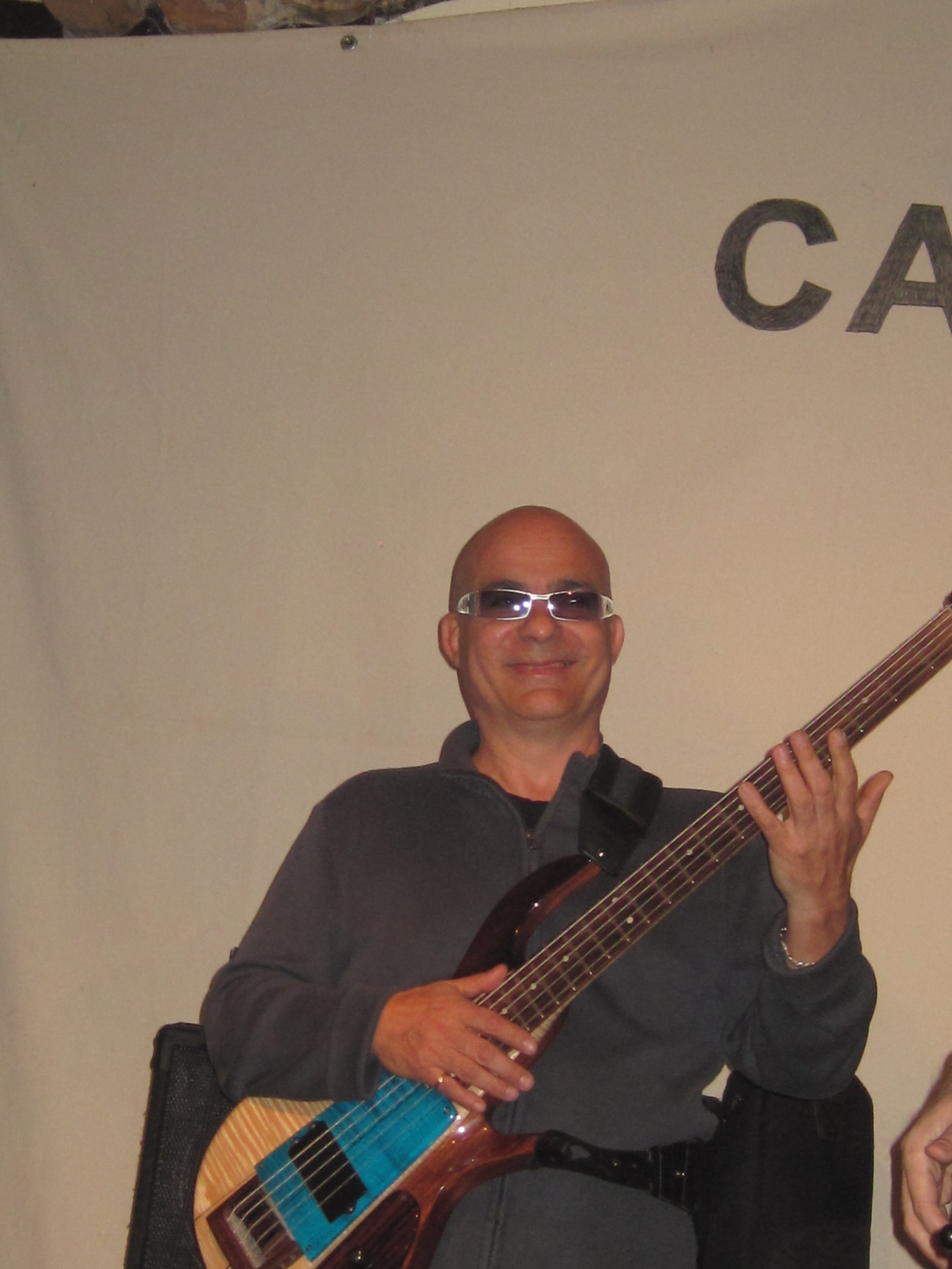 french jazz bassist Dominique de Piazza, Marburg 2015